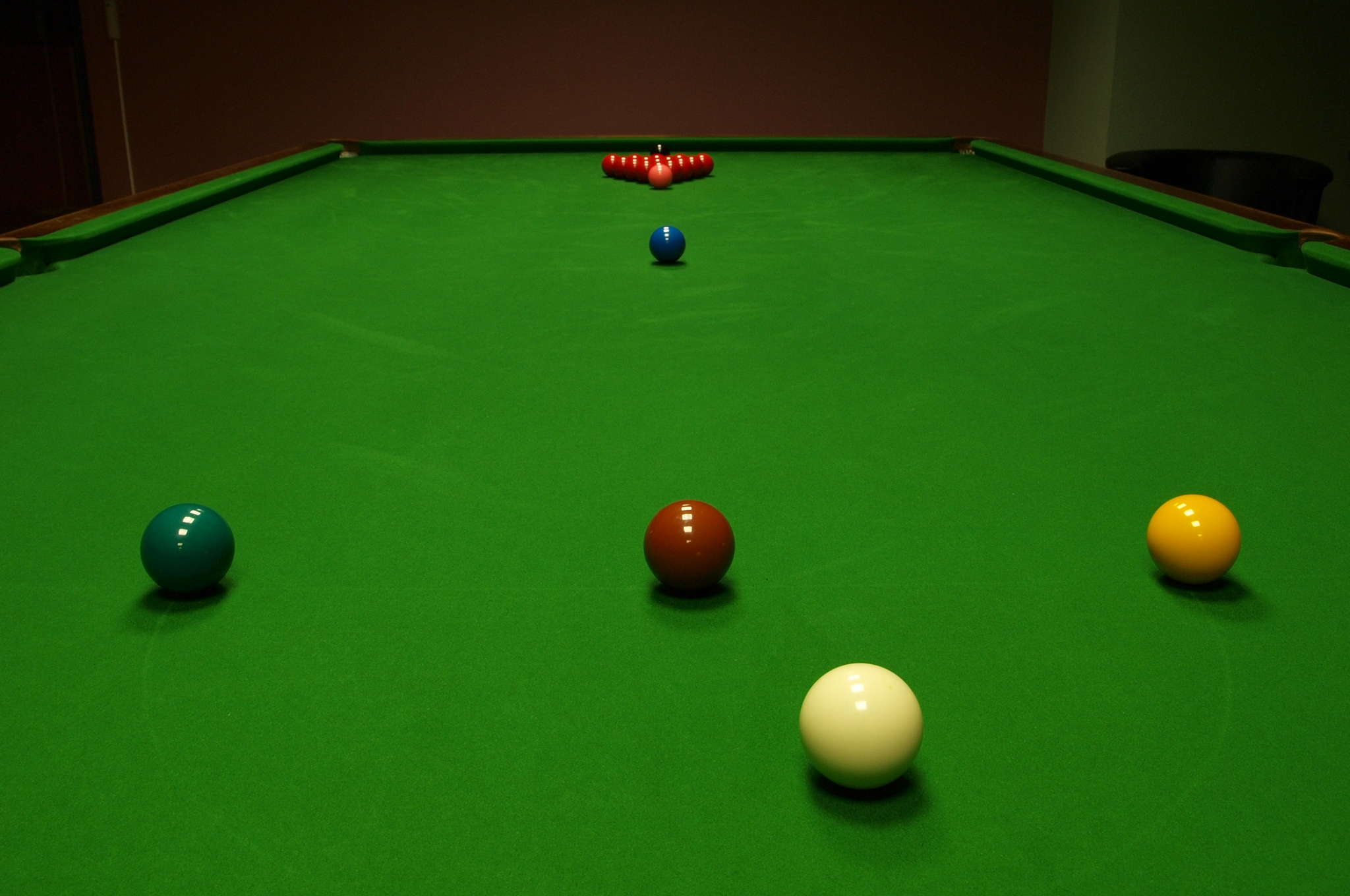 Snookertable with all balls on starting positions.